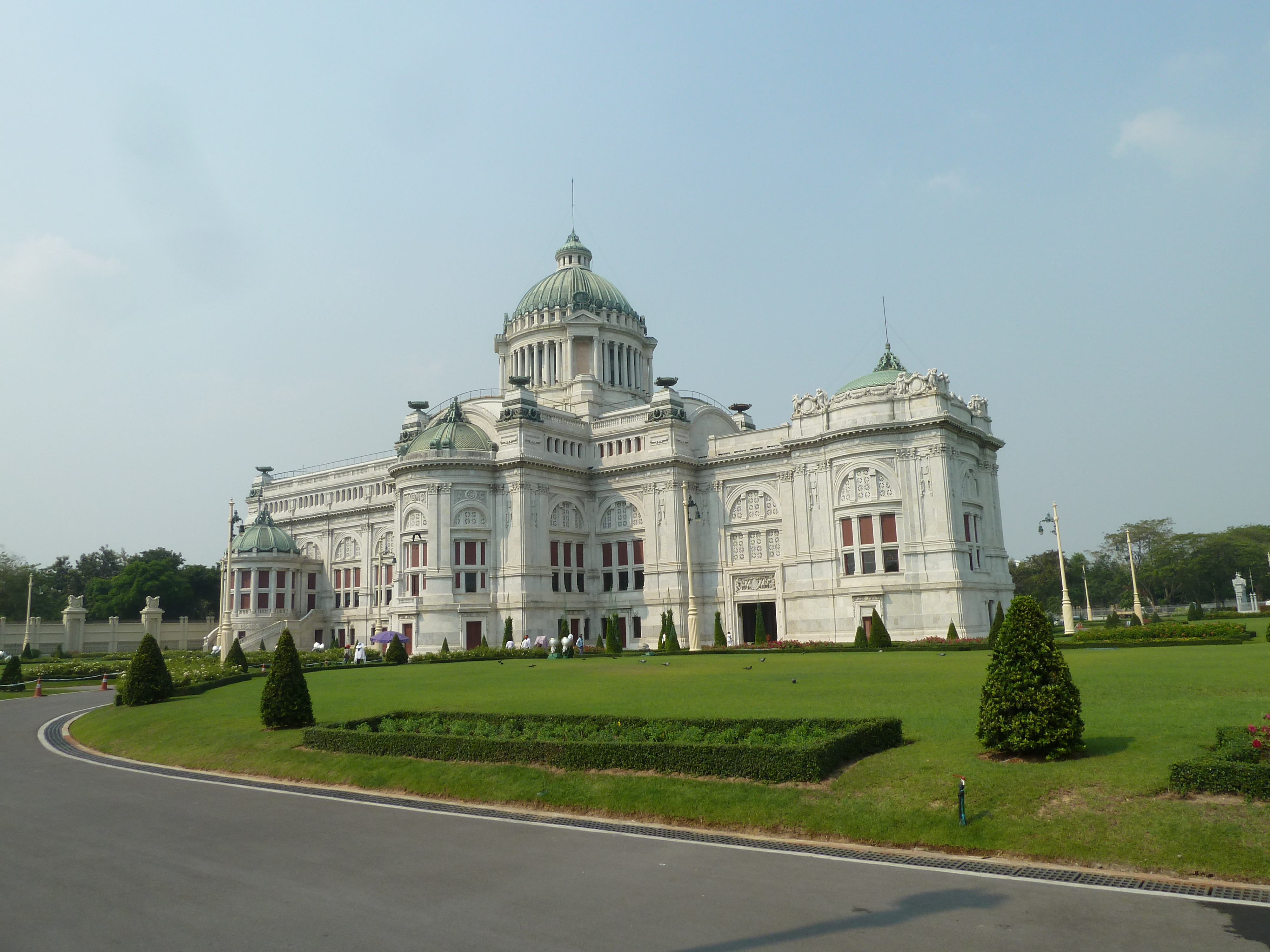 Ananta Samakhom Throne Hall, Bangkok, Thailand